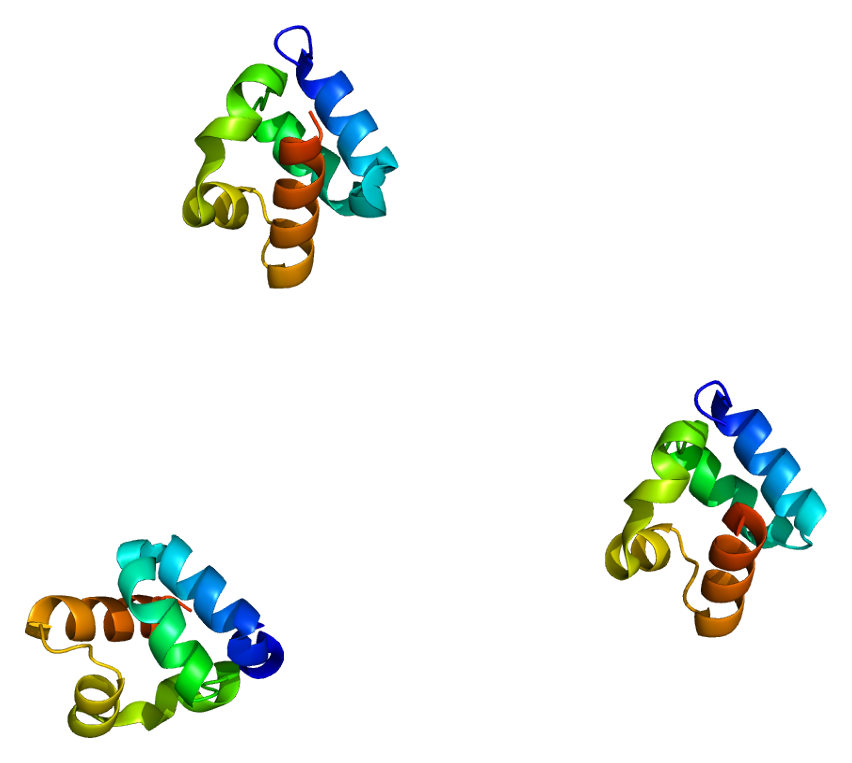 Structure of the SHANK3 protein. Based on PyMOL rendering of PDB 2f3n.